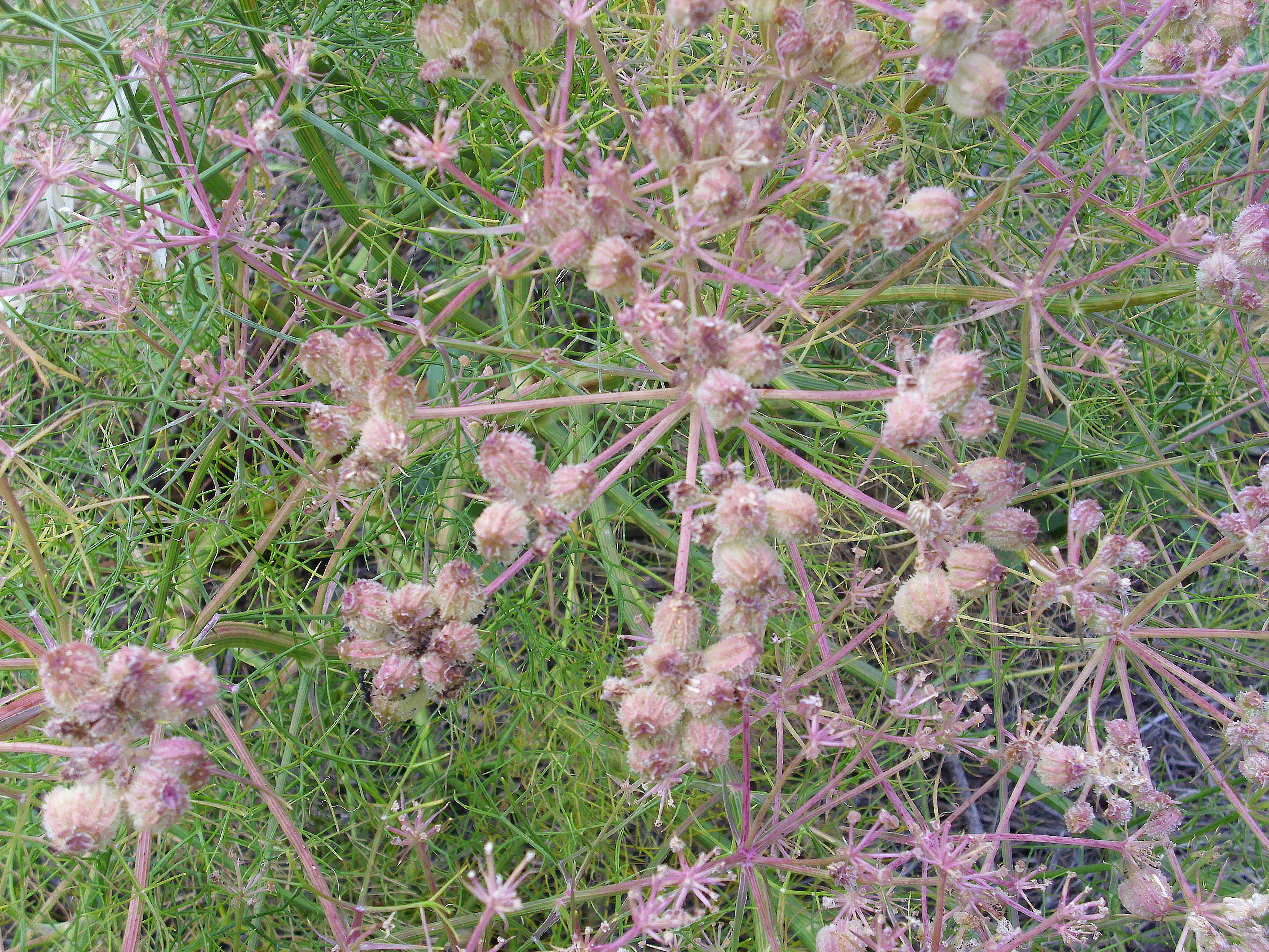 Cachrys sicula fruits close up, Campo de Calatrava, Spain